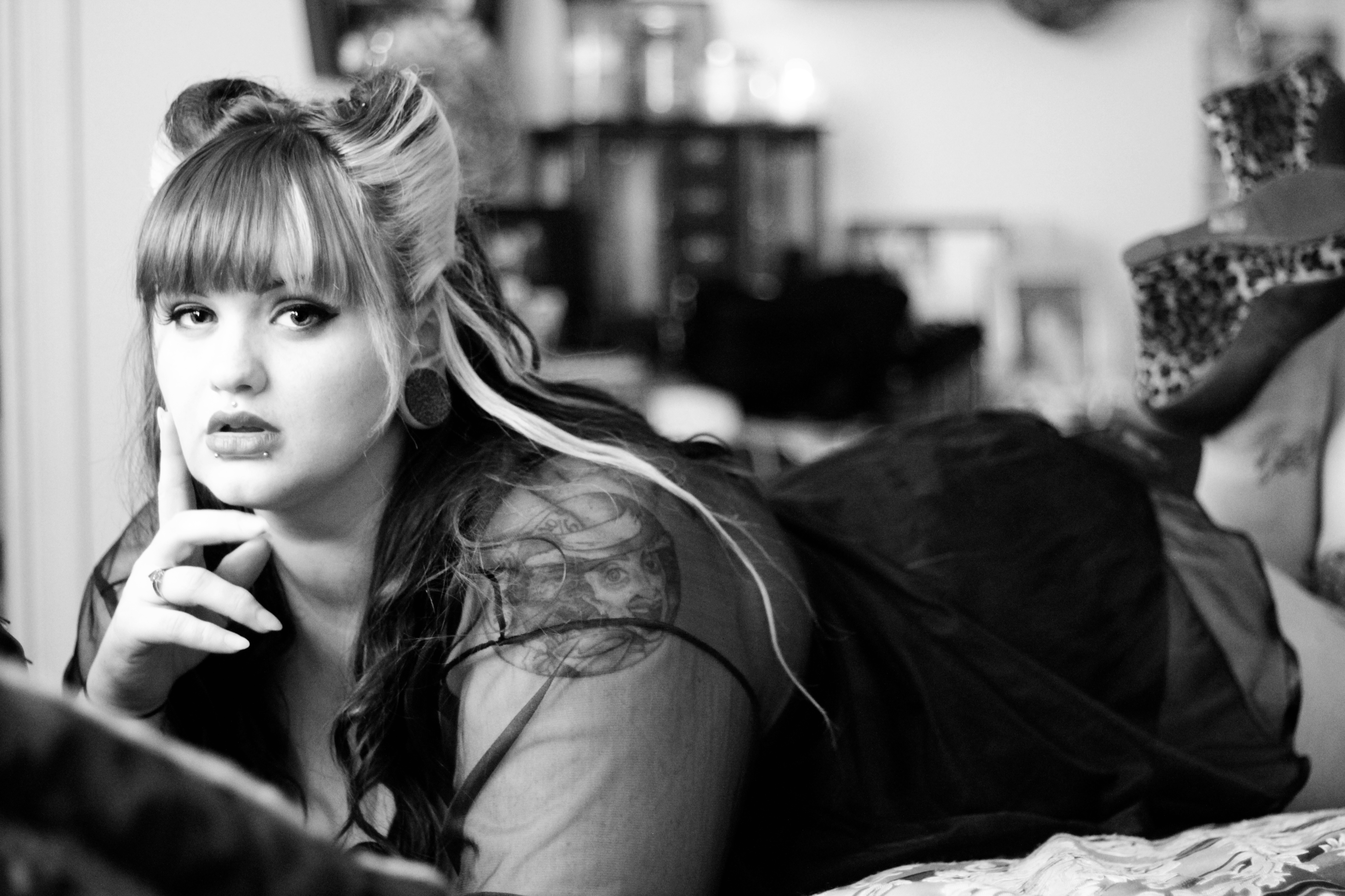 Photo featured by The Daily Dot report about Stefania Ferrario’s #DropThePlus campaign.